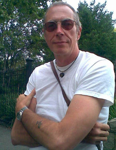 Graham Priest at the University of Melbourne, Ormond College